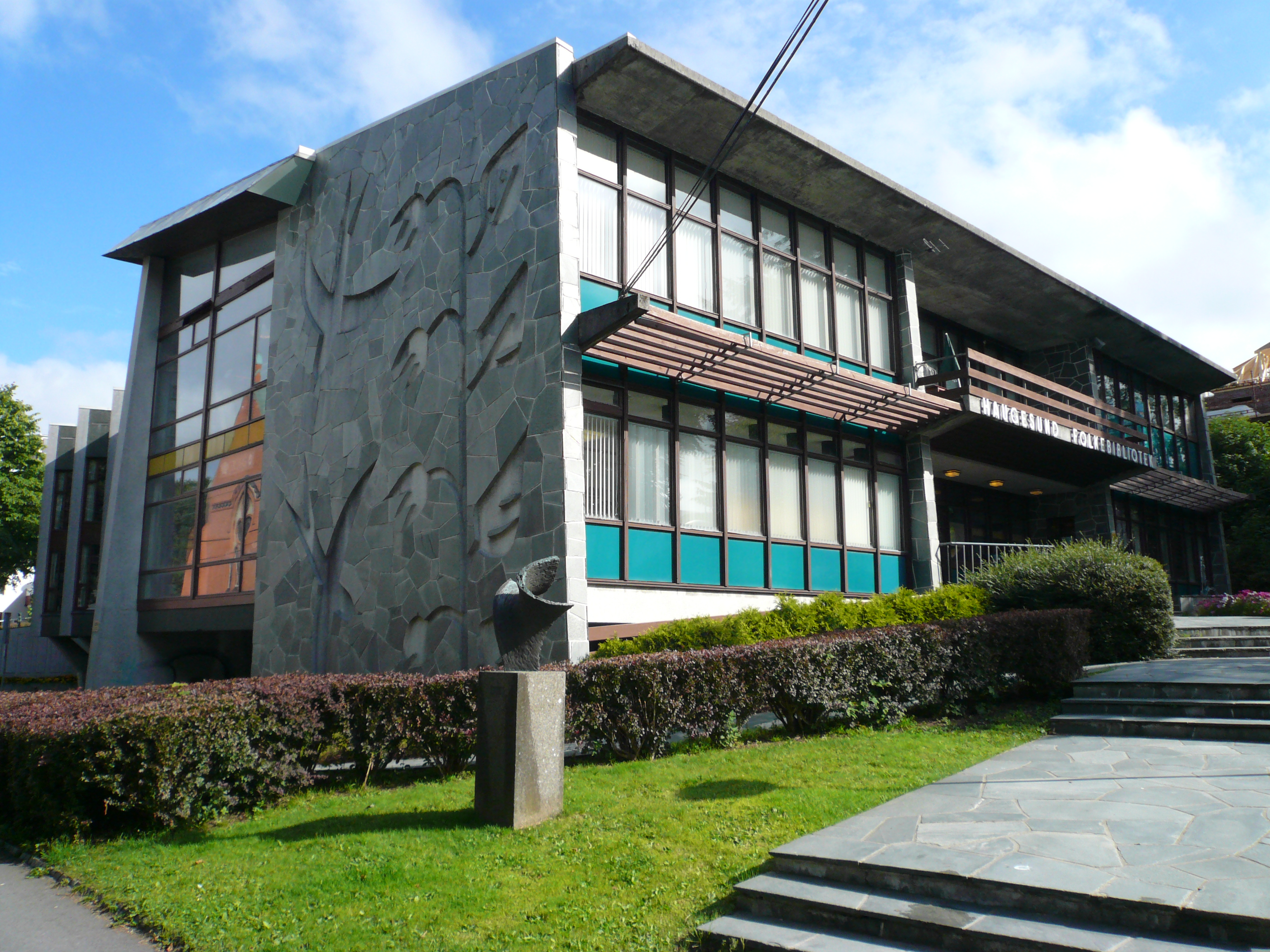 Haugesund folkebibliotek in Haugesund, Norway (arcitect David Sandved)